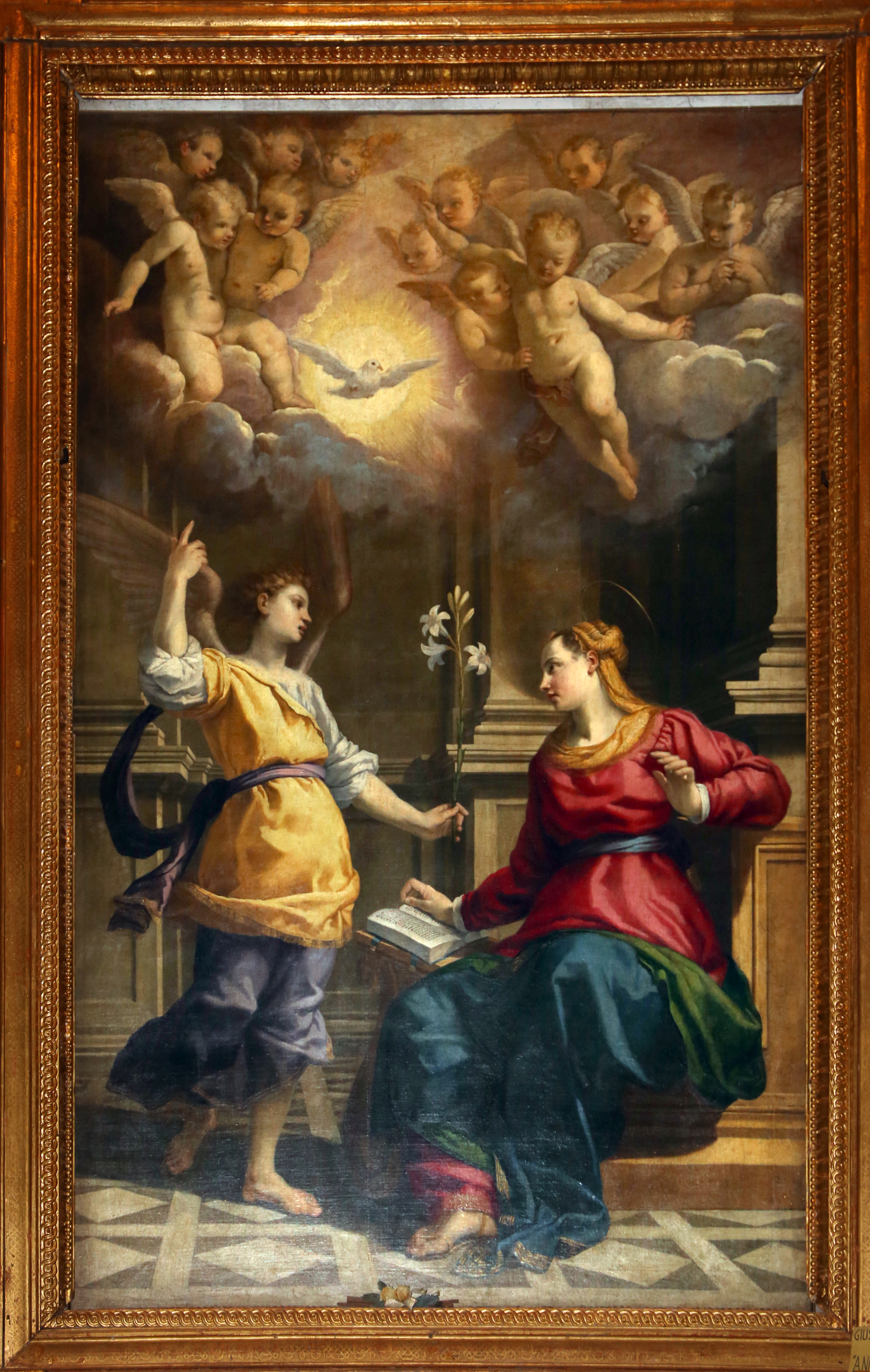 San Michele del Gesù (Ferrara) - Interior